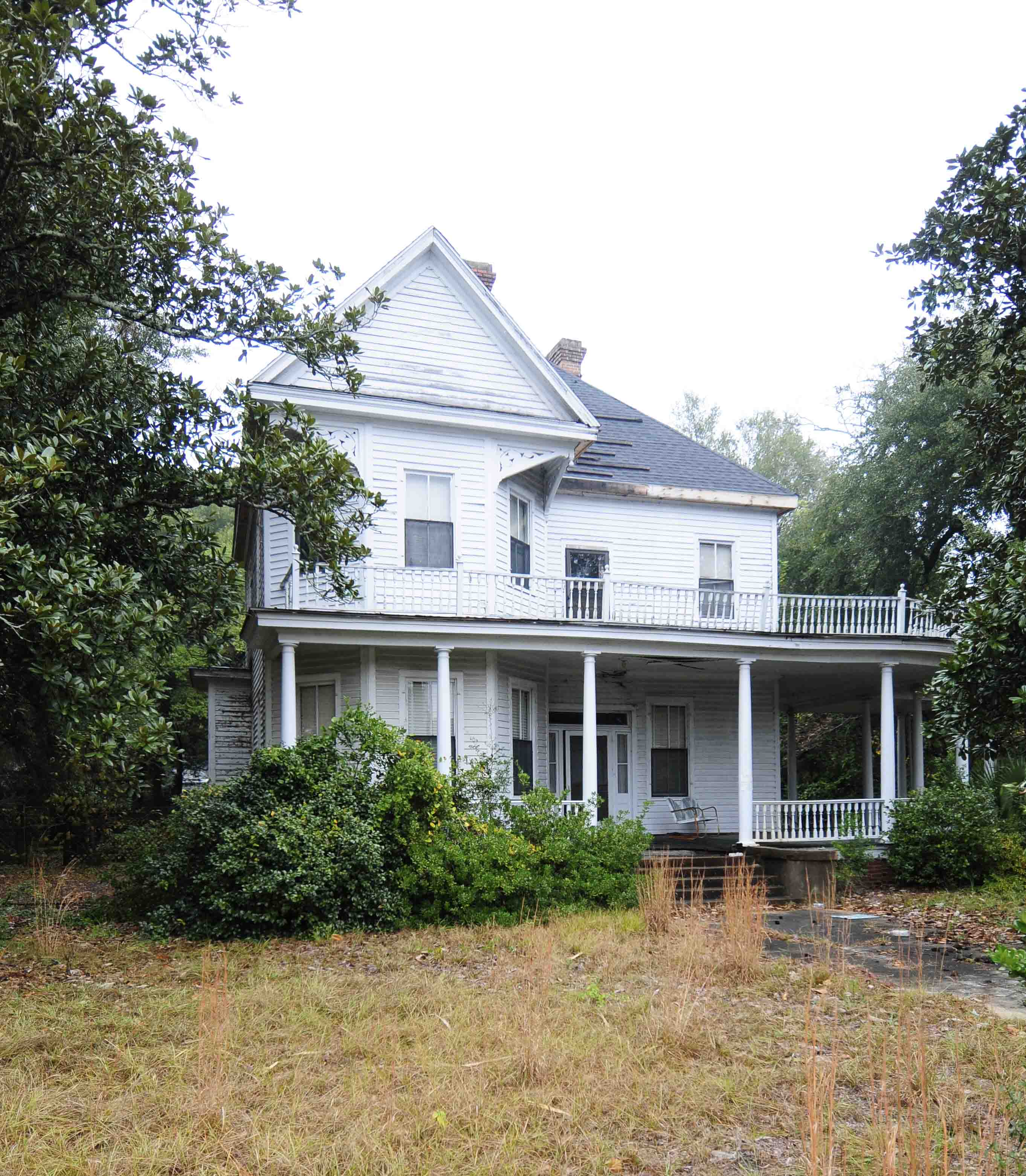 A representative home in the Bamberg Historic District, South Carolina